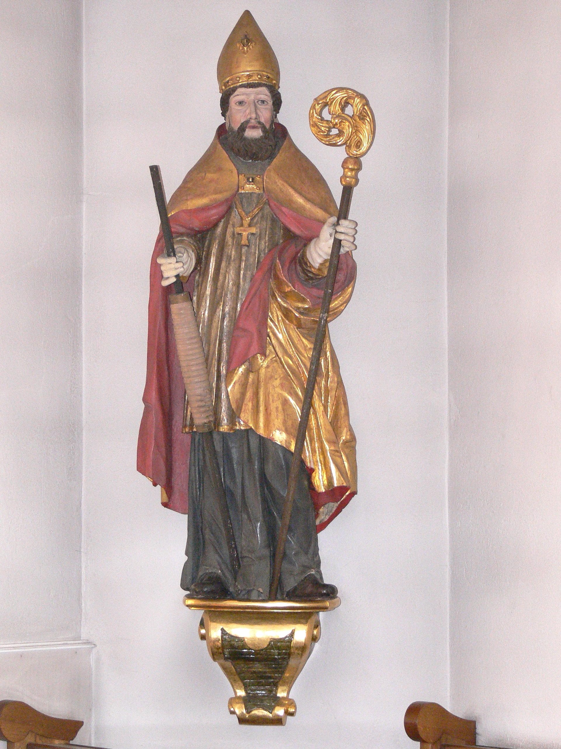 Parish church St.Ulrich in Ulrichsberg. Statue of Saint Erasmus ( 1670 )